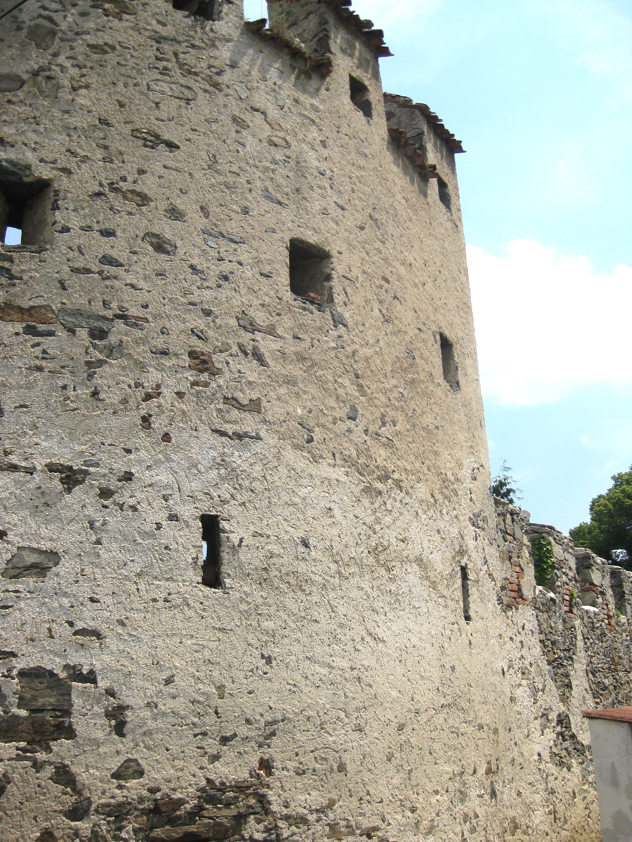 Raabs an der Thaya. Town Wall, corner Roundel Tower